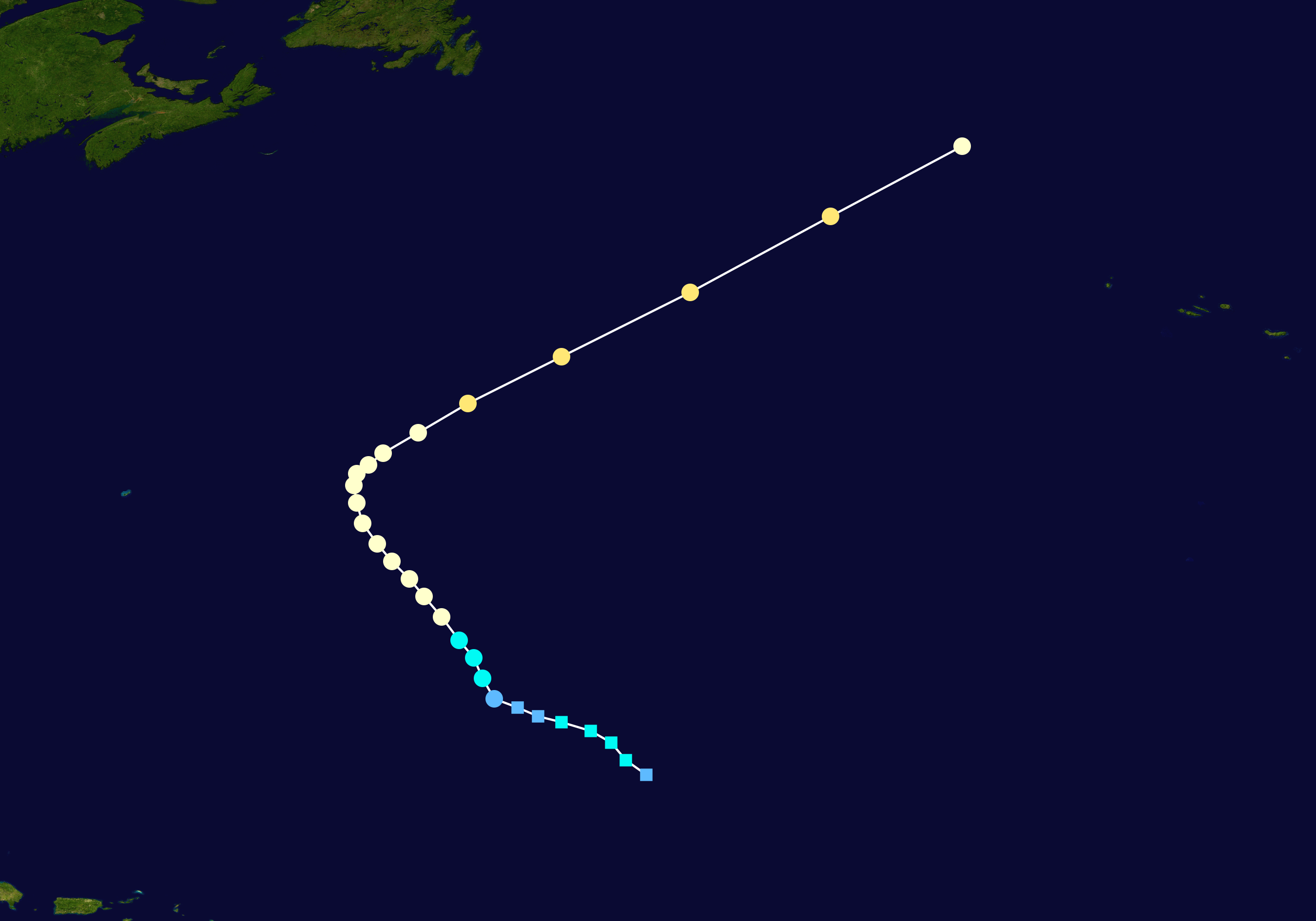 Track map of Hurricane Florence of the 1994 Atlantic hurricane season. The points show the location of the storm at 6-hour intervals. The colour represents the storm's maximum sustained wind speeds as classified in the Saffir–Simpson scale (see below), and the shape of the data points represent the nature of the storm, according to the legend below. Saffir–Simpson scale Tropical depression≤38 mph≤62 km/h Category 3111–129 mph178–208 km/h Tropical storm39–73 mph63–118 km/h Category 4130–156 mph209–251 km/h Category 174–95 mph119–153 km/h Category 5≥157 mph≥252 km/h Category 296–110 mph154–177 km/h Unknown Storm type Tropical cyclone Subtropical cyclone Extratropical cyclone / Remnant low / Tropical disturbance / Monsoon depression